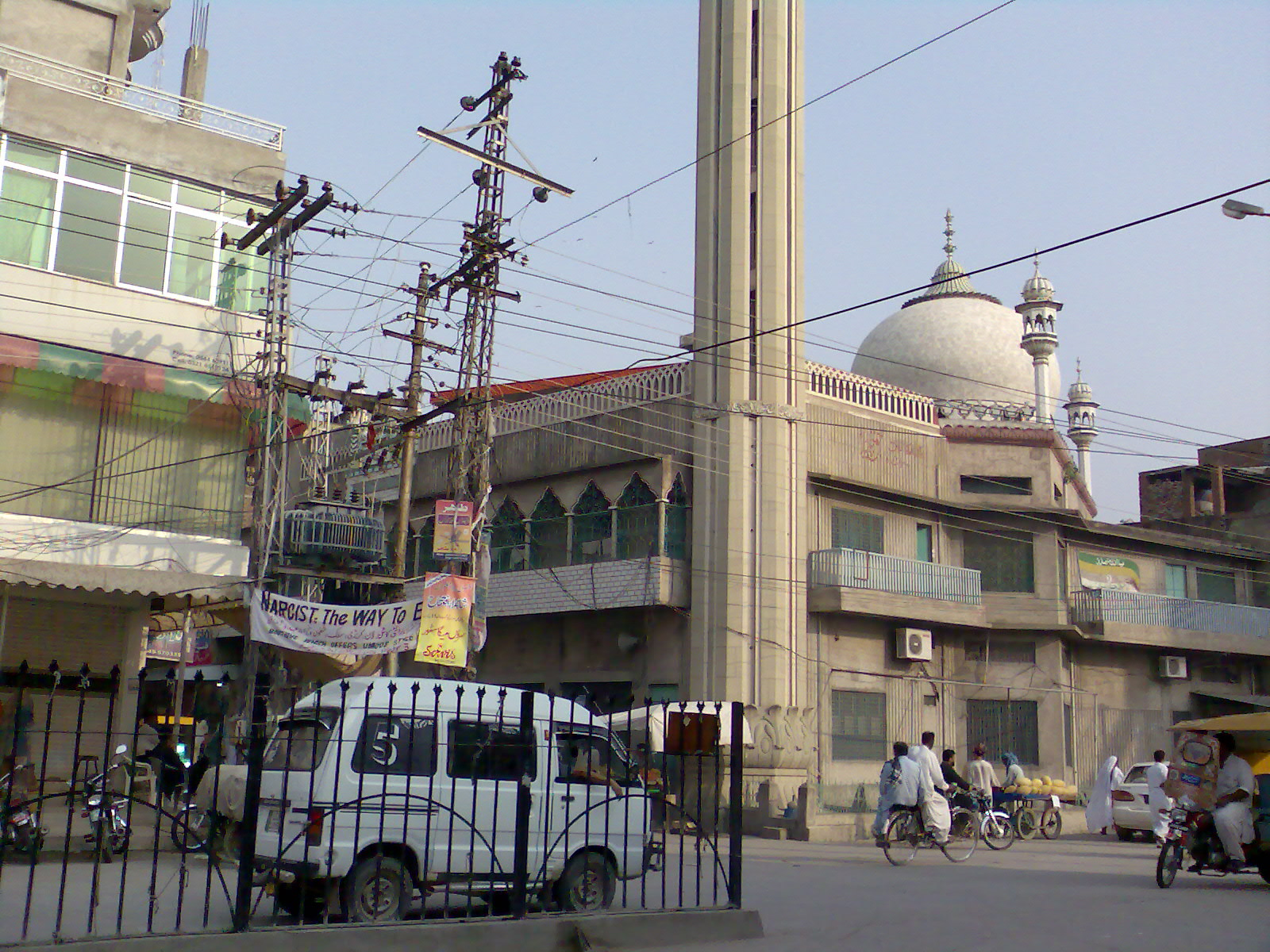 Gumbad wali Masjid